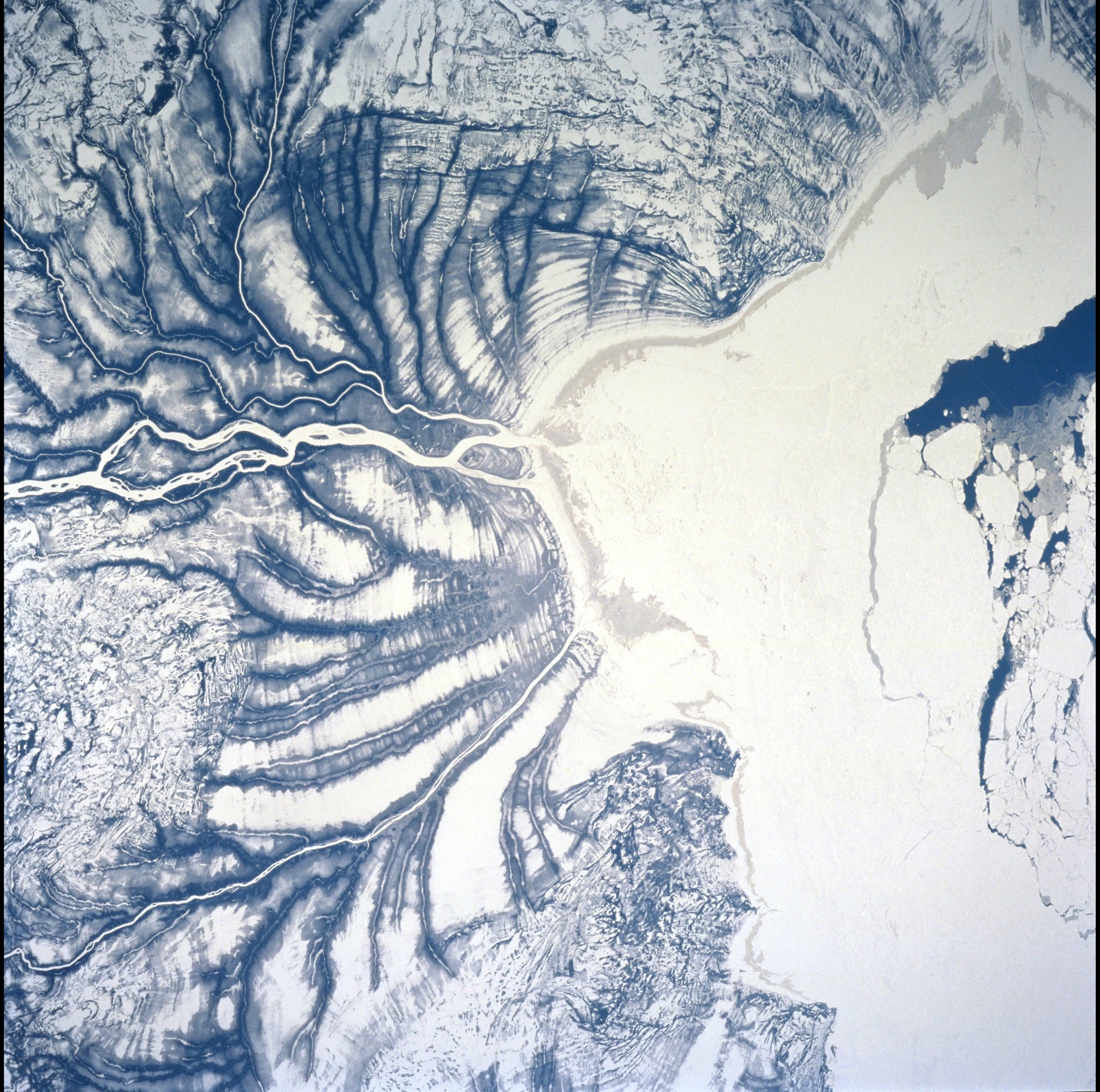 Numerous shorelines around Hudson and St. James Bays are distinctive in winter because of snow cover. The area shown in this Shuttle image is located in Hannah Bay, in the southern part of St. James Bay. The river is the Harricanaw River. Shorelines along the bay were created when the overlying glaciers retreated and the land underneath rebounded causing the Hudson/St James Bay waters to retreat northward. These ridges are 100 to 200 m in width and heights can reach up to 7 m. The land along St. James Bay consists mainly of tidal flats and salt marshes.